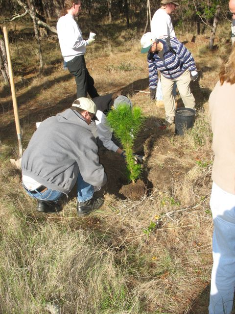 Photo of members from the Leadership Monterey Peninsula Class of 2008 Reforestation Project